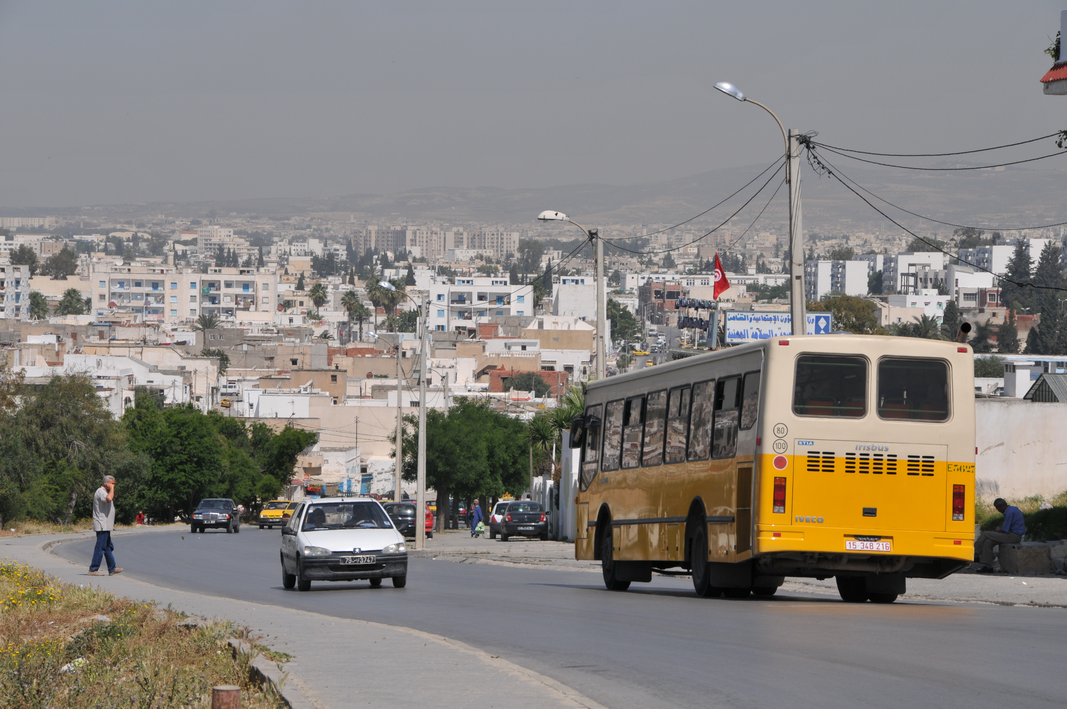 Irisbus bus (#E3627) in Tunis, Tunisia. SNT operator.